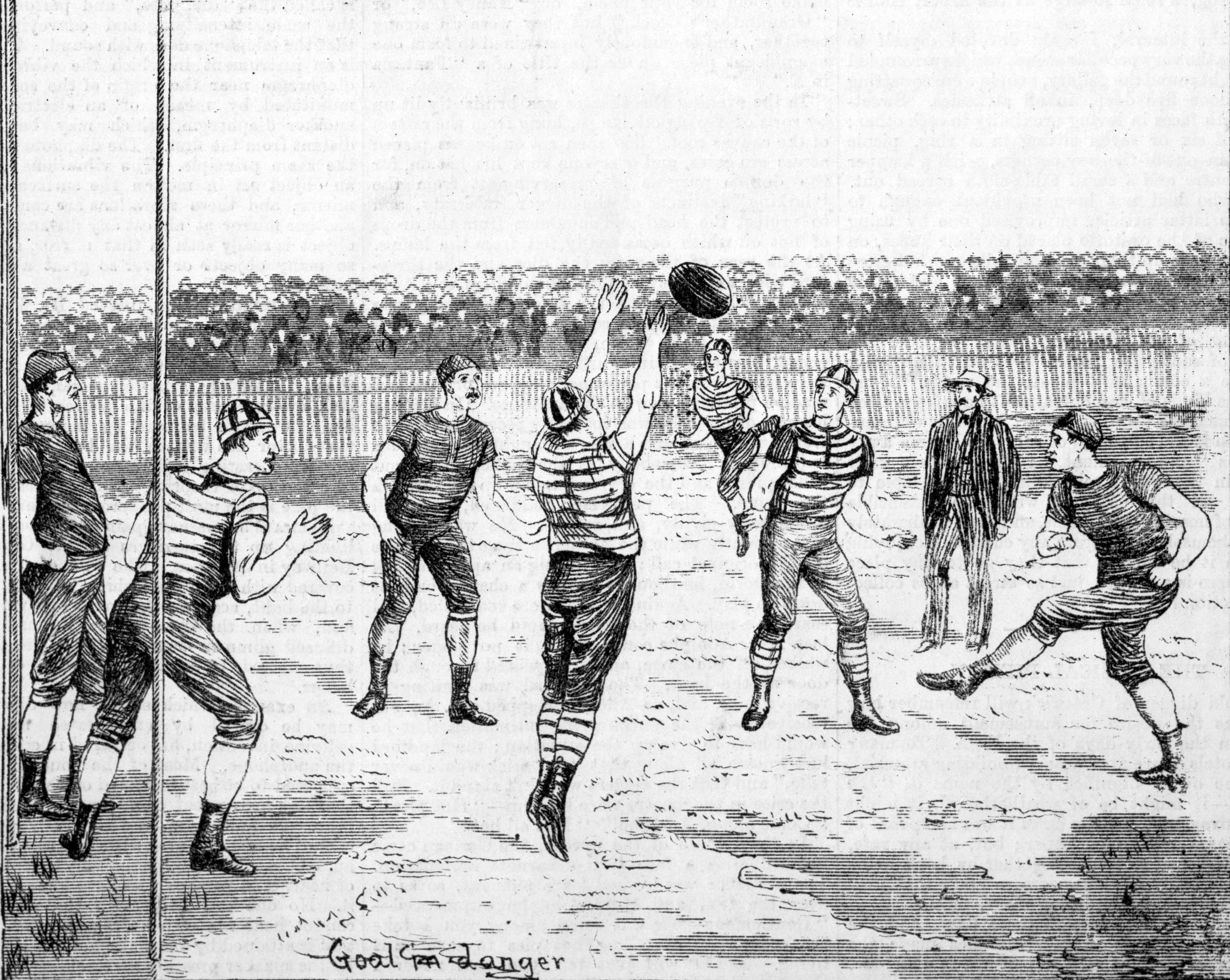 Wood engraving, published in Australian Pictorial Weekly. Shows Geelong and Melbourne footballers during a match.